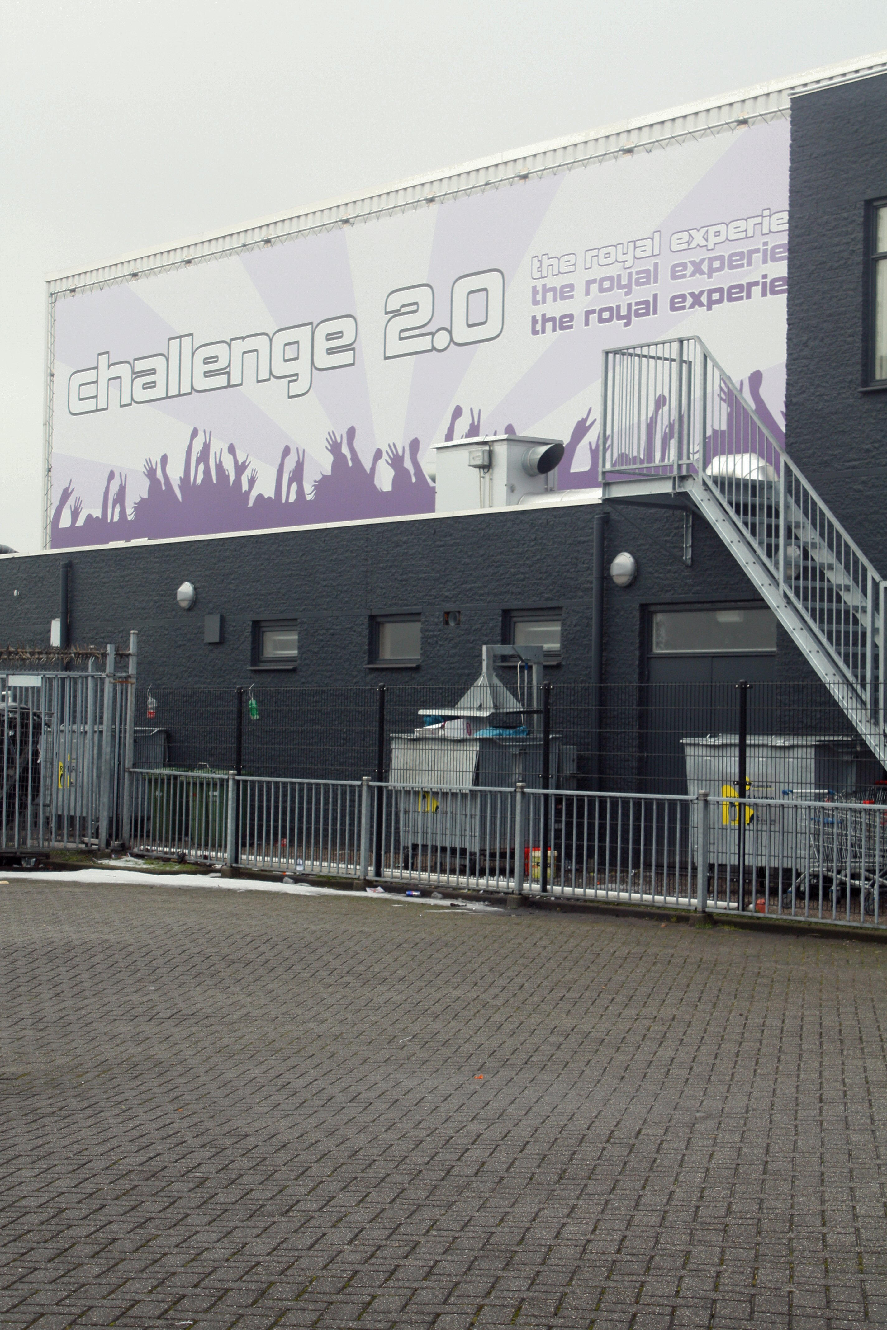 Challenge 2.0 is the main club in Hoofddorp and one of the biggest in the Netherlands.